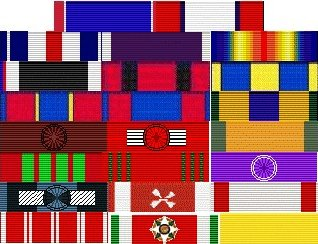 Graphic recreation of General John Pershing's award ribbons by Wiki User Husnock